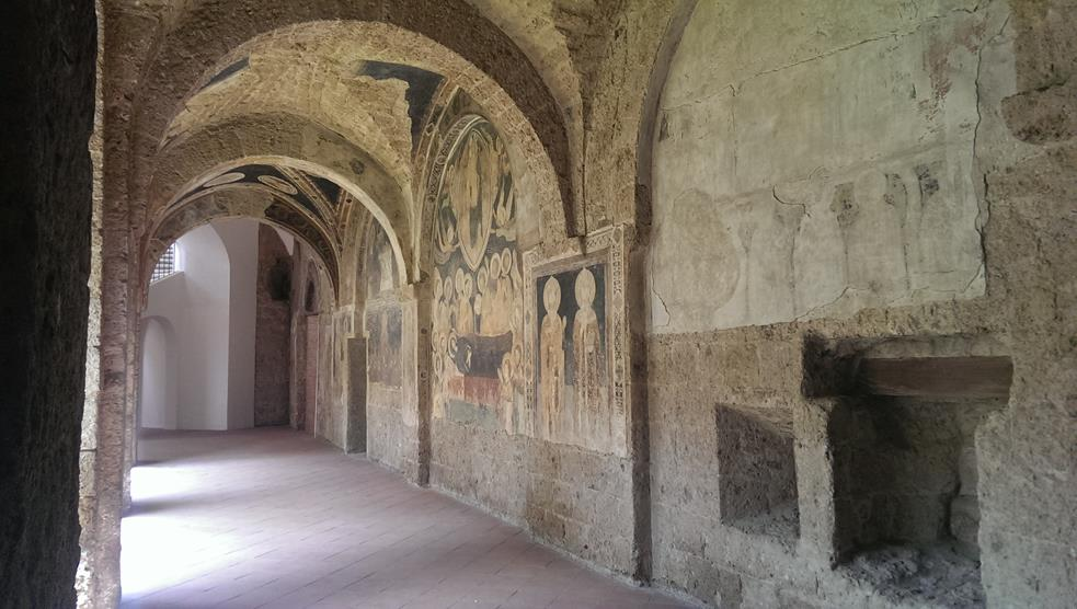 Picture about the interior of the Curch of St. Francesco delle Monache in Aversa